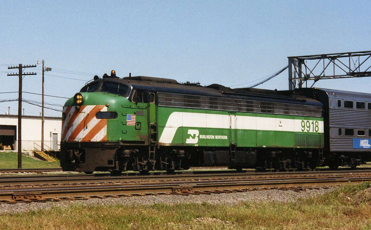 BN 9918, an EMD E9, working on Metra's line to Aurora, September 1992.